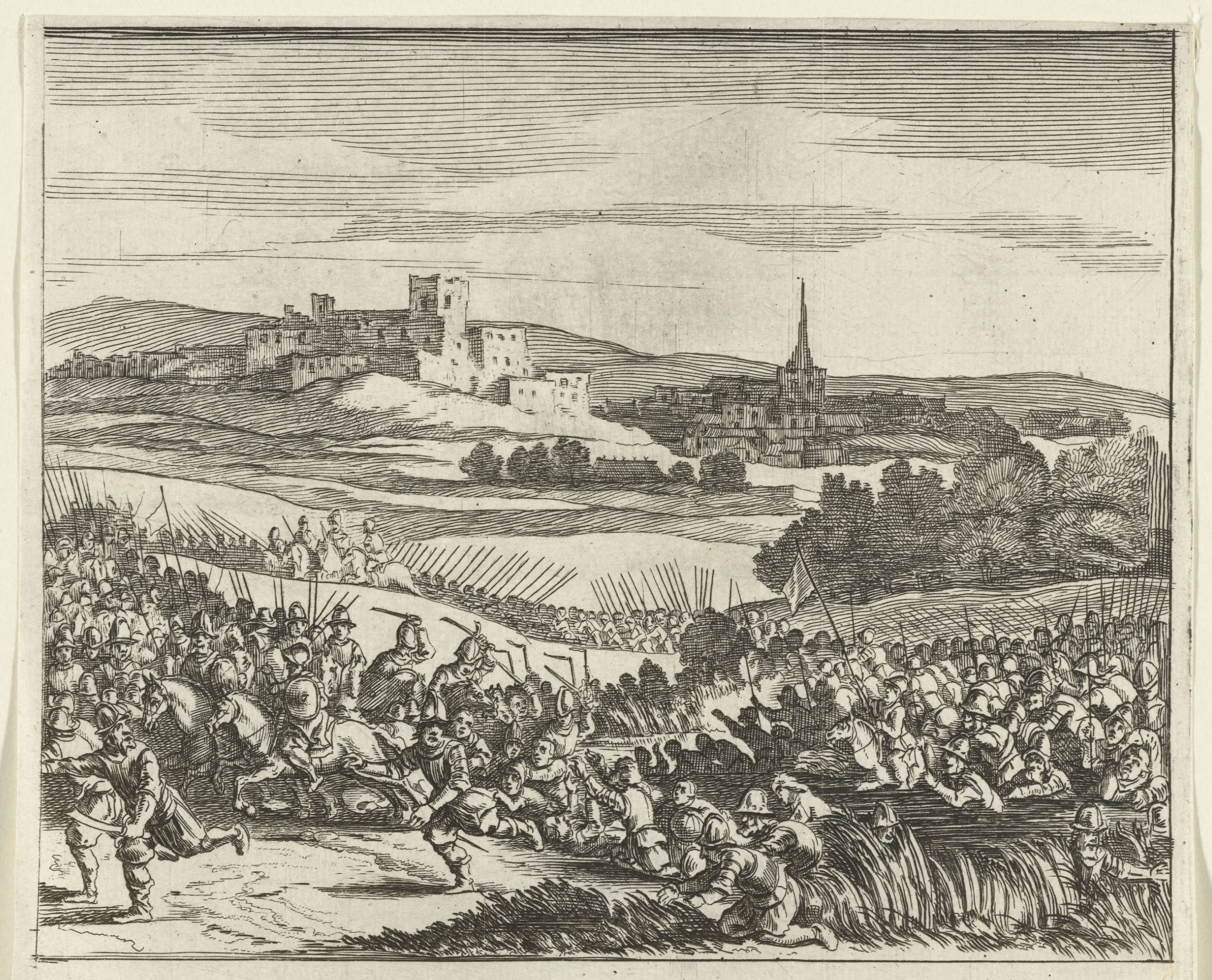 Battle at Ane (Netherlands) by anonymous artist (1662-1664)